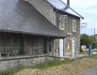 Train station of Oceja, in the French commune of Osséja